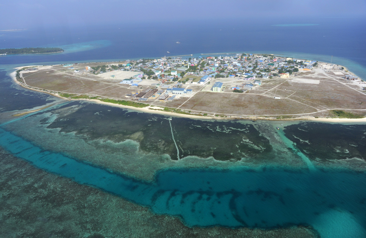 Bird's-eye view of Naifaru